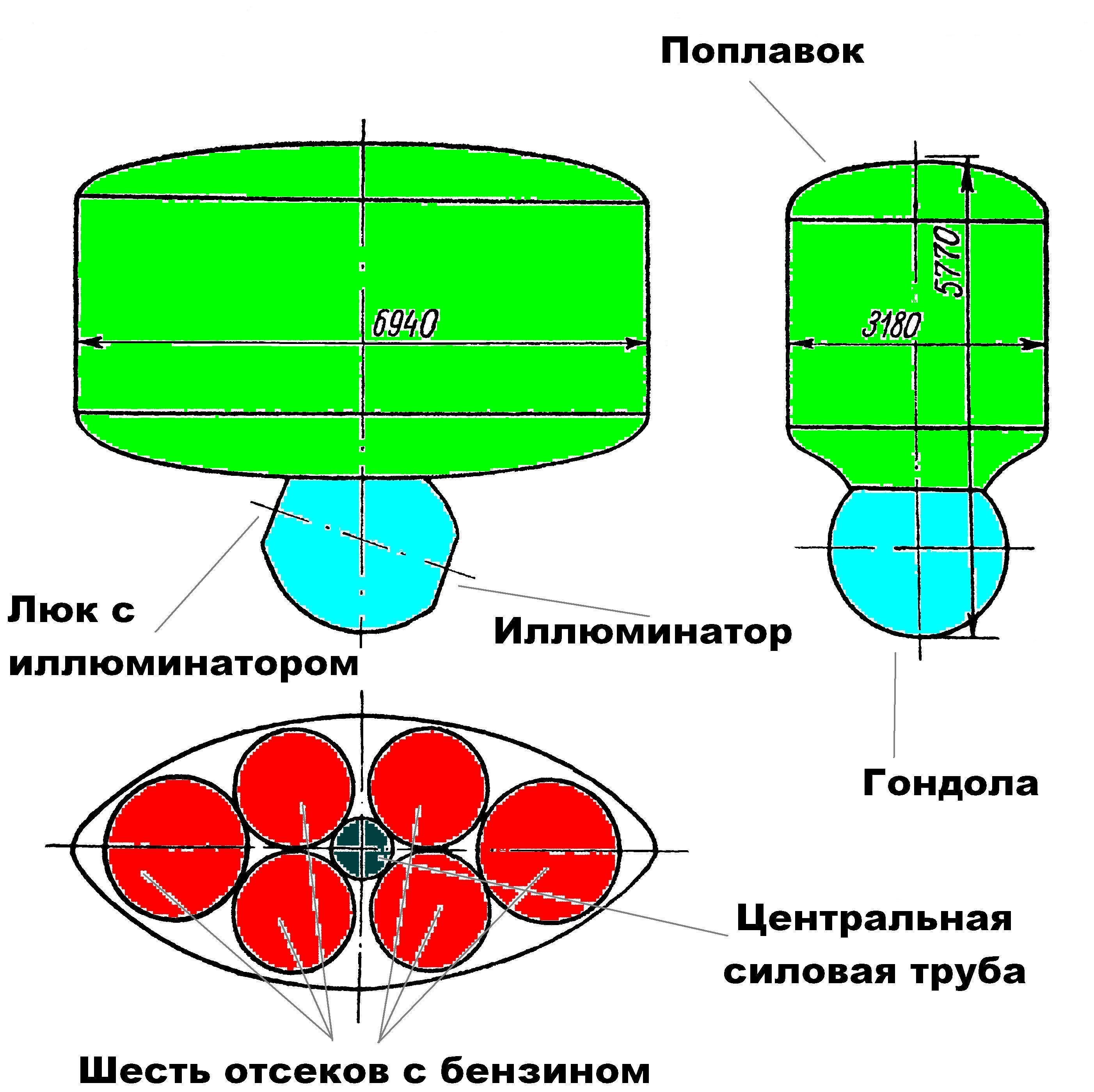 FNRS II